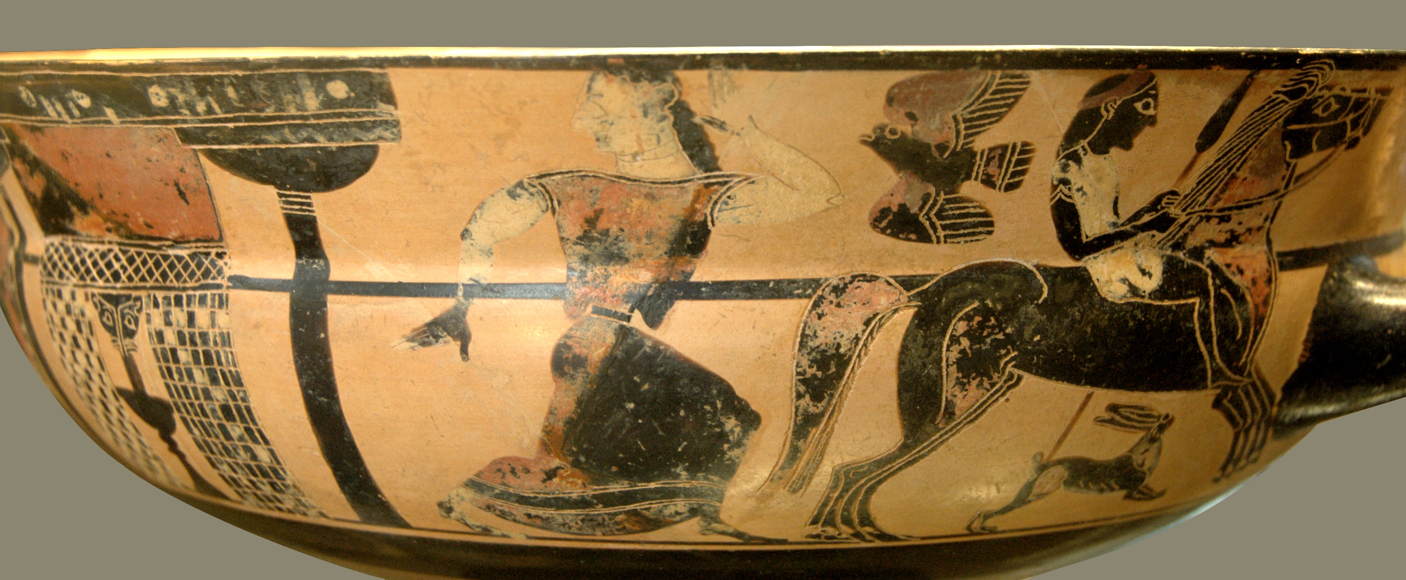 Flight of Troilus and Polyxena to avoid Achilles' ambush (left on this side). Side A from an Attic black-figure kylix, ca. 570–565 BC.